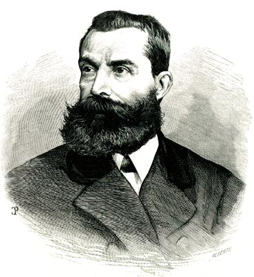 Portrait engraiving of João de Deus Ramos, a Portuguese poet and inventor of a method to teach children to read.